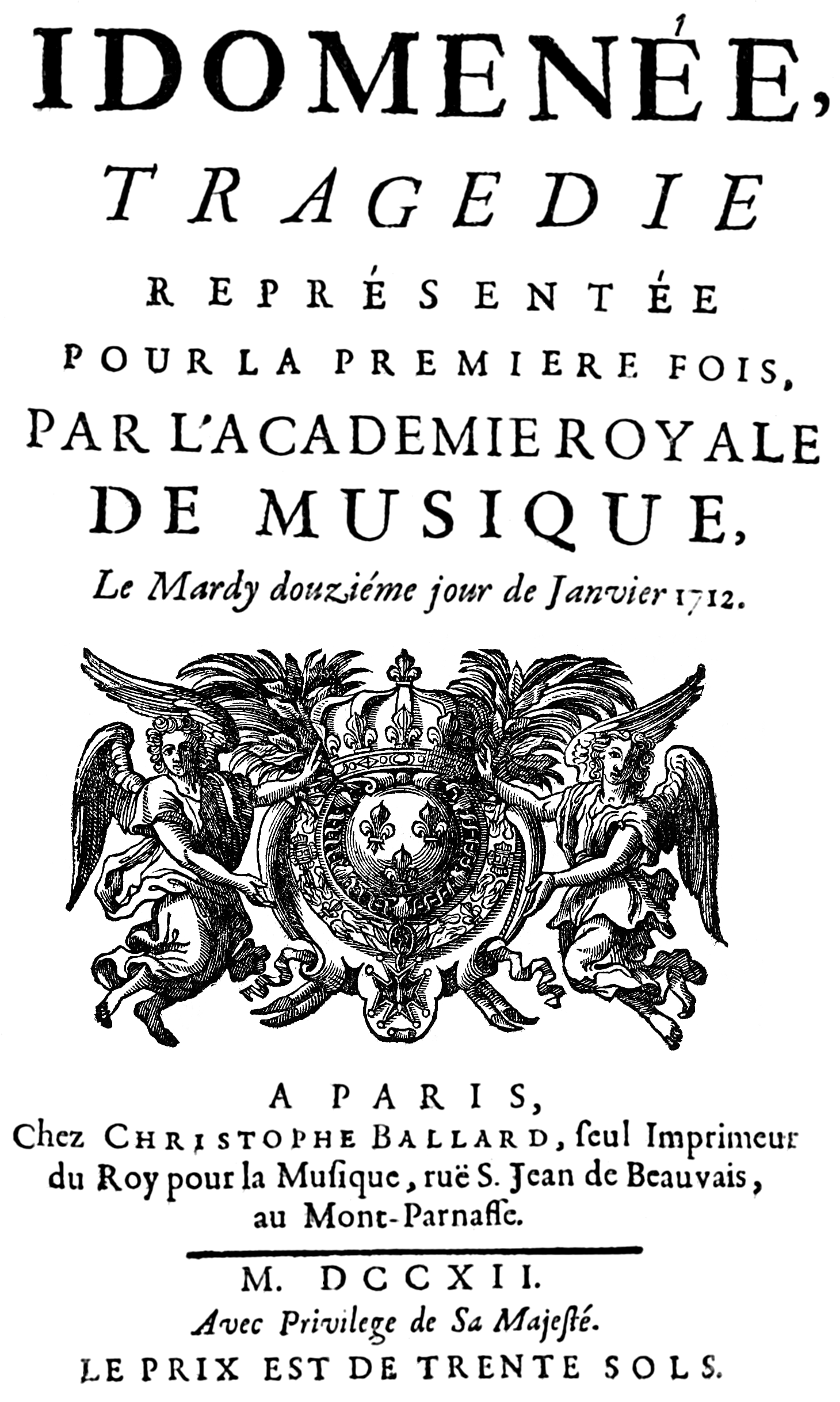 André Campra - Idoménée - title page of the libretto - Paris 1712